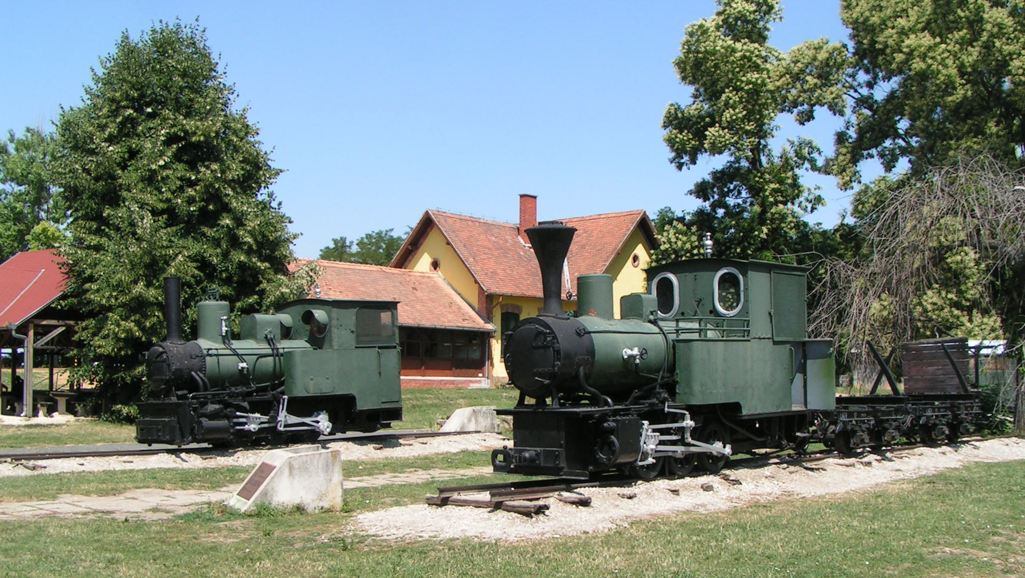 Railway museum in Nagycenk (Hungary)